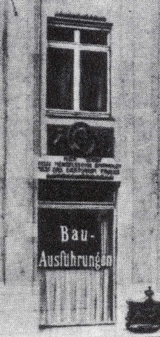 Düsseldorf, Geschäftshaus Schadowstraße 30, Mendelssohn-Haus, Gedenktafel HIER WOHNTE FELIX MENDELSSOHN BARTHOLDY ..., um 1905 (Peter Hüttenberger - Die Industrie- und Verwaltungsstadt (20. Jahrhundert) Düsseldorf. Band 3. Schwann, Düsseldorf 1990).jpg